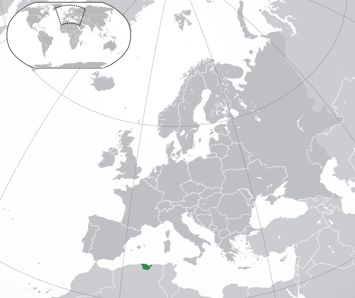 Kaabylie (orthographic projection)